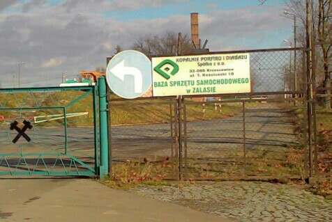 Zalas